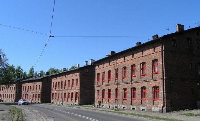 Workers hauses in Ruda Ślaska, Upper Silesia, Kaufhaus settlement